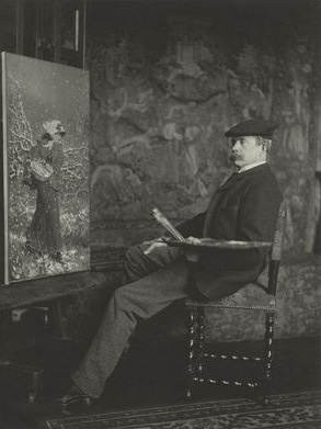 George Henry Boughton